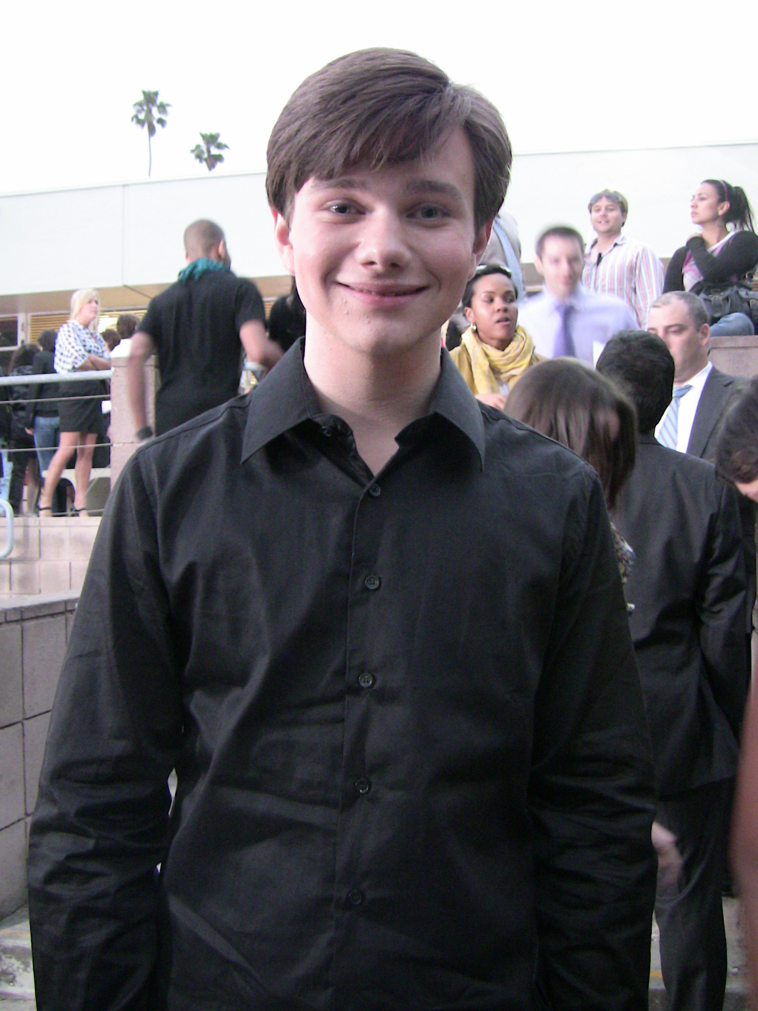 Chris Colfer at the Glee Premiere Party, Santa Monica High School, Santa Monica, California on May 11, 2009.